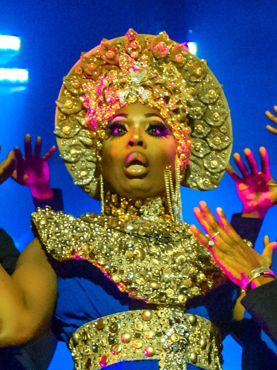 Bebe Zahara Benet at NUBIA NYC in 2020. Photo by Randall Starr.